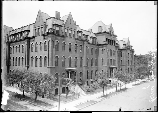 Mercy Hospital and Medical Center (where Theodore Roosevelt was taken after being shot on October 14 1912)